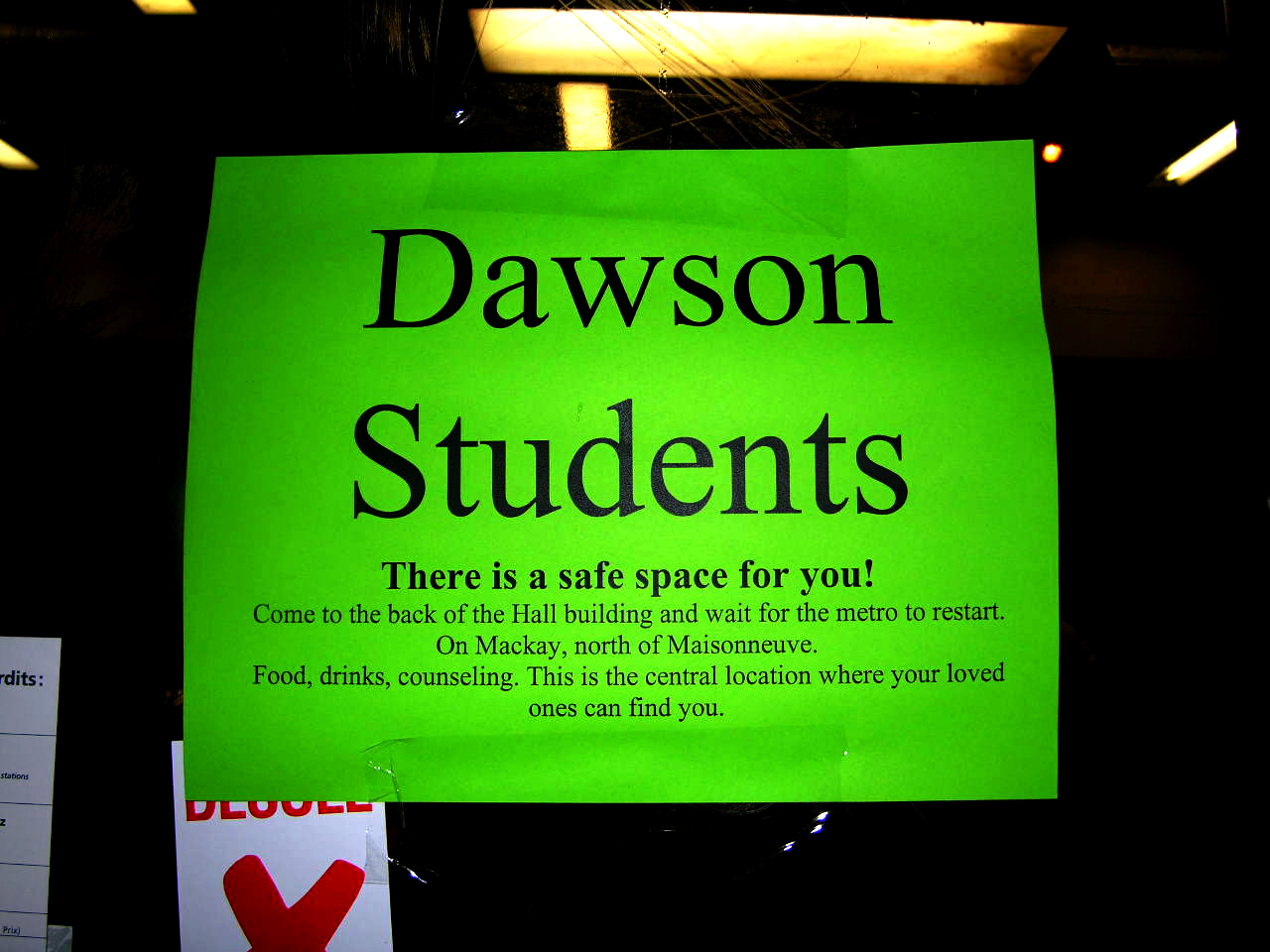 Sign on the door of a Montreal downtown subway station in the afternoon of the nearby Dawson College school shooting, 13 September 2006